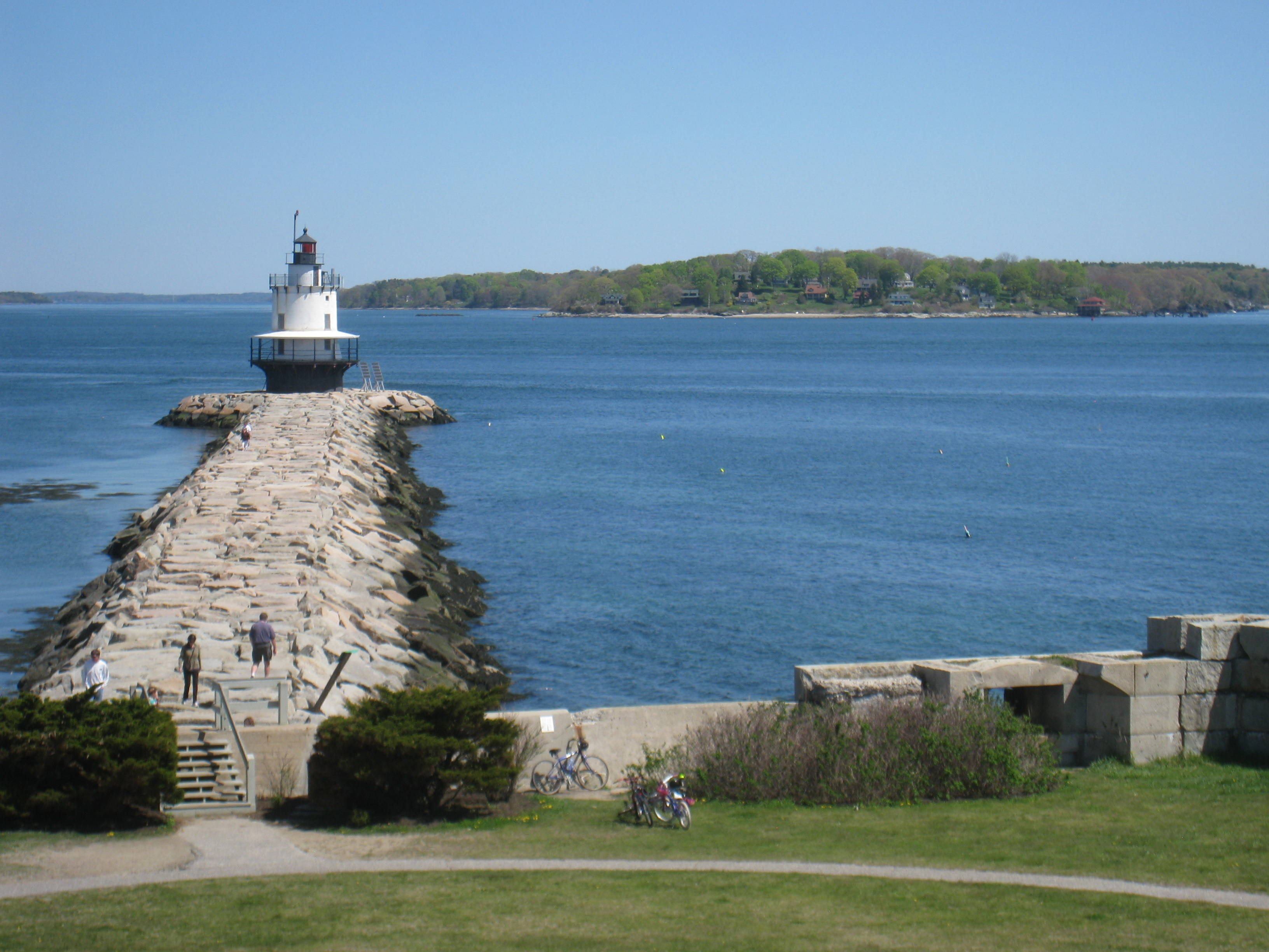 Spring Point Ledge Light, adjacent to the campus of Southern Maine Community College, South Portland, Maine, USA.